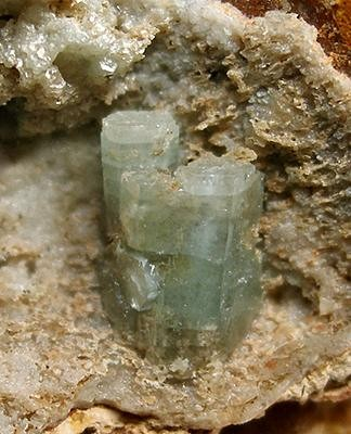 Leadhillite Locality: Beer Cellar Mine, Granby Field, Tri-State District, Newton County, Missouri, USA (Locality at ) Size: 3.8 x 3.3 x 3.2 cm. A 7 mm sharp crystal of leadhillite with classic greenish color, perched in a protected vug in cerussite matrix. Although small, this is a SUPERB, incredibly sharp crystal for the locality. Beer Cellar leadhillites are one of those holy grails of a US collector. Ex. E.R. Chadbourn and George Feist Collections. Old material dating to the late 1800s and very early 1900s.